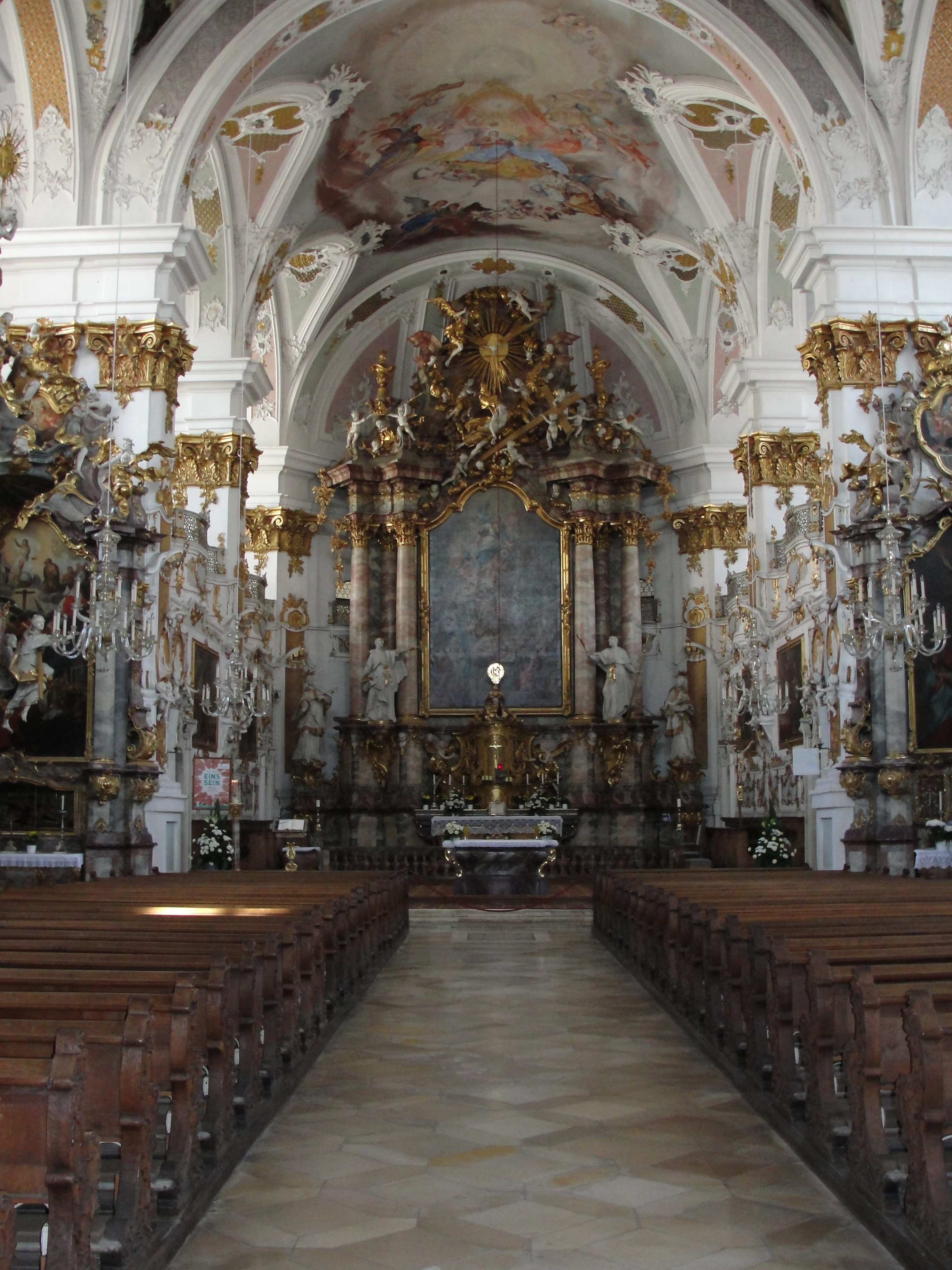 The study's Church (former Jesuit church)